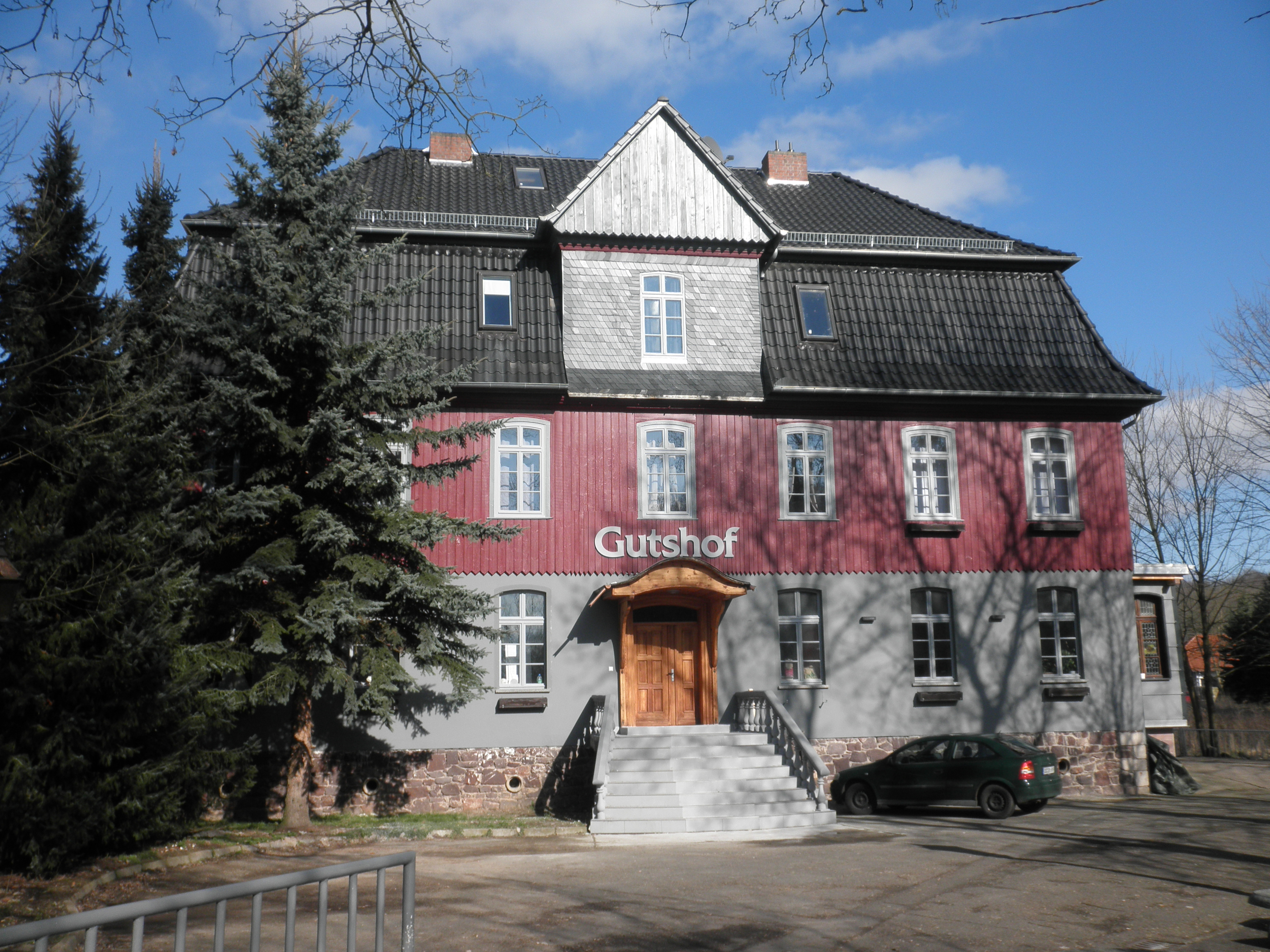 Manor House in Krimderode (Nordhausen) in Thuringia